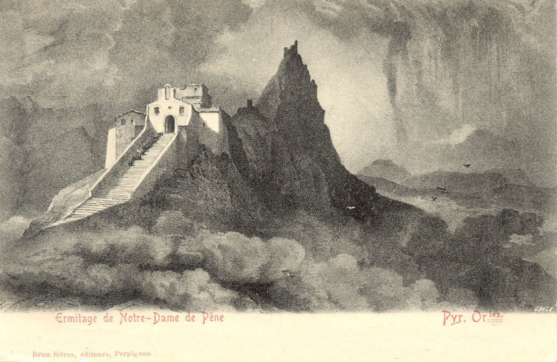 Ancient postcard (ca. 1910) of Notre Dame de Pène hermitage